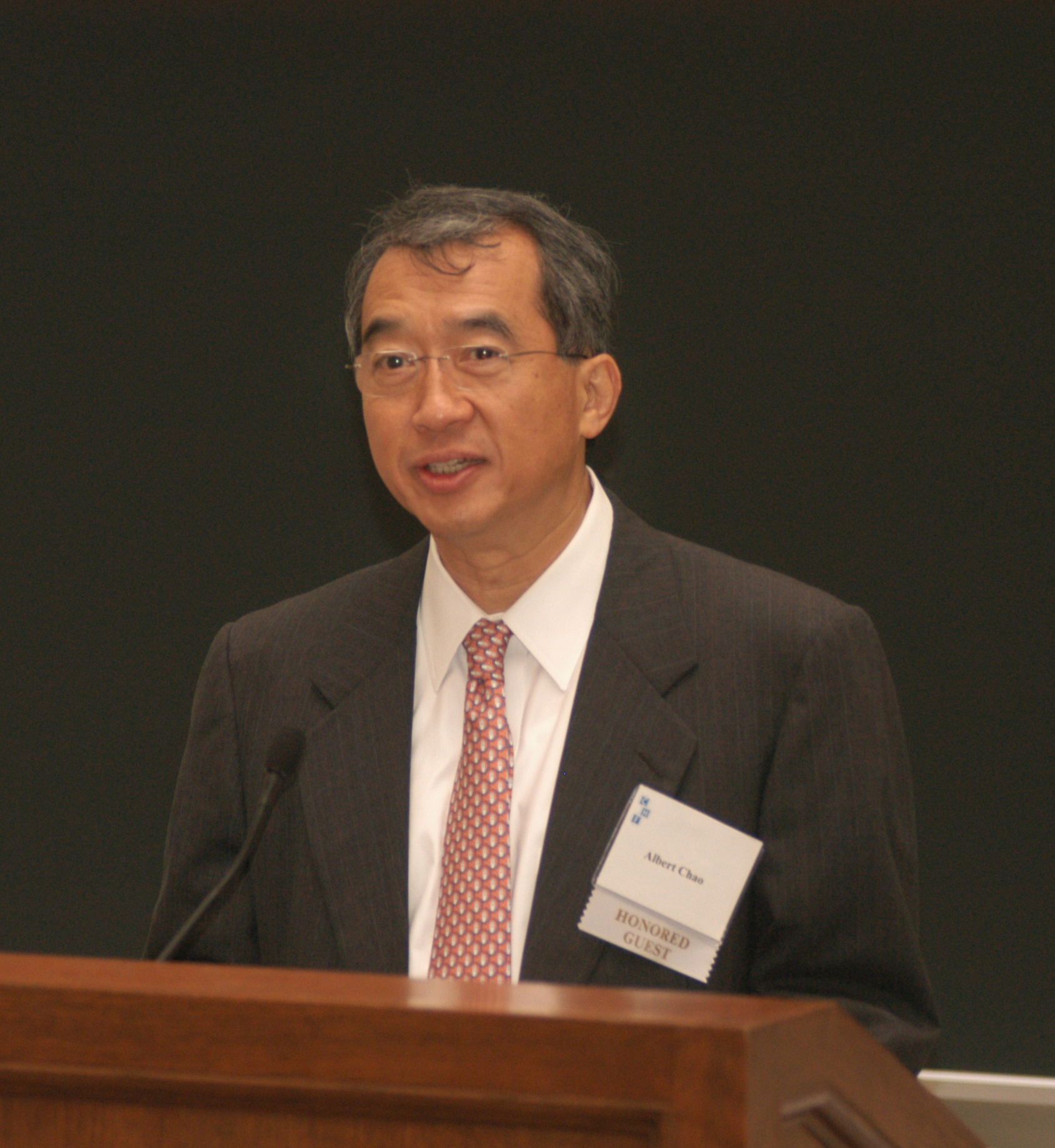 Photograph of Albert Chao, president and CEO of Westlake Chemical, at the T. T. Chao Symposium on Innovation, November 12, 2009, Chemical Heritage Foundation, Philadelphia, PA, USA.